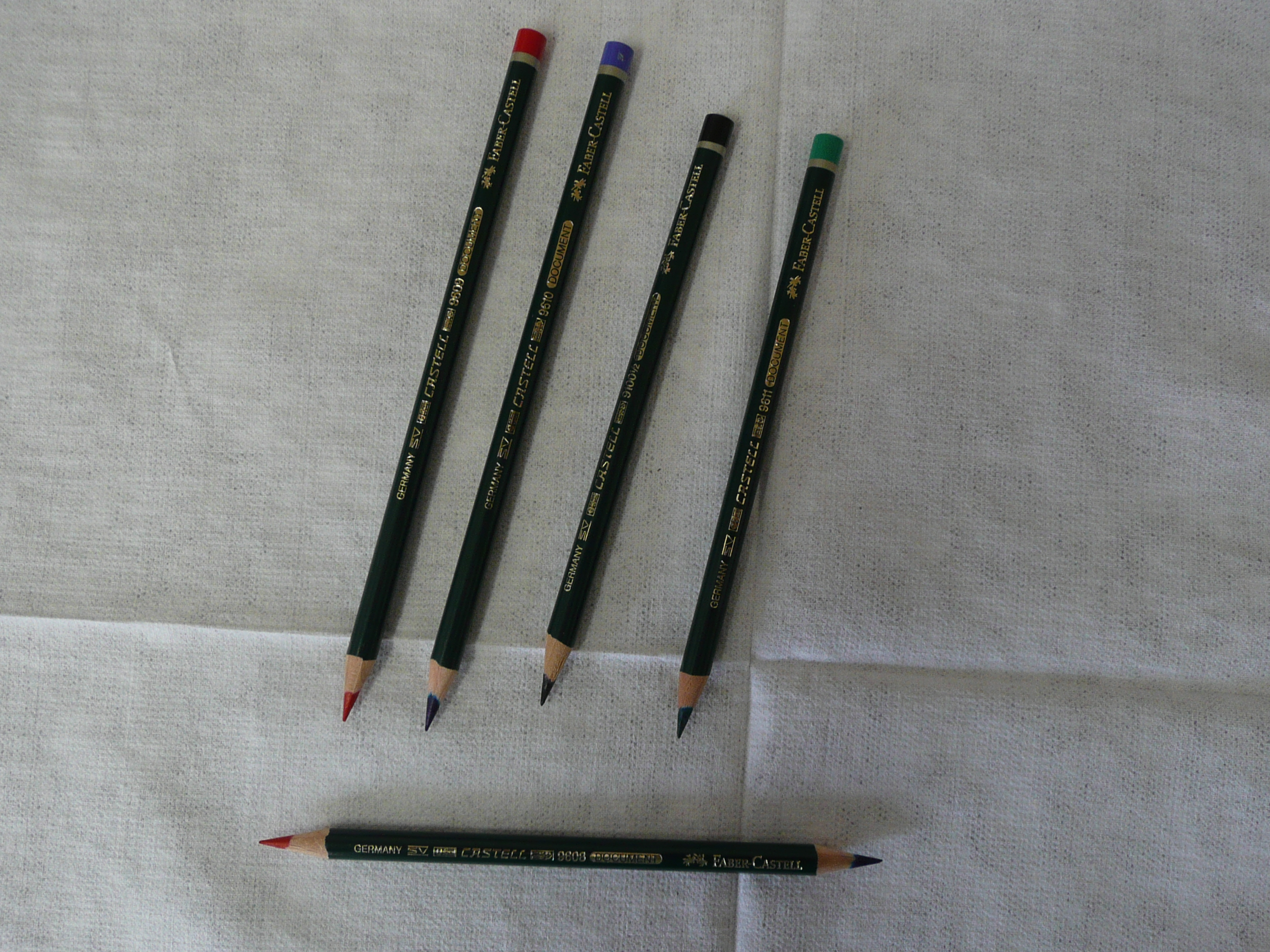 Copying pencils (now called Document pencils) which are still available in 2010. Producer Faber-Castell.